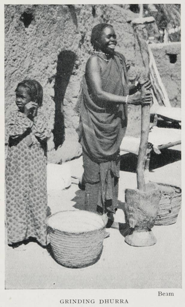 A young girl at a grinding dhurra (a small pot with a stick, akin to a mortar and pestle).